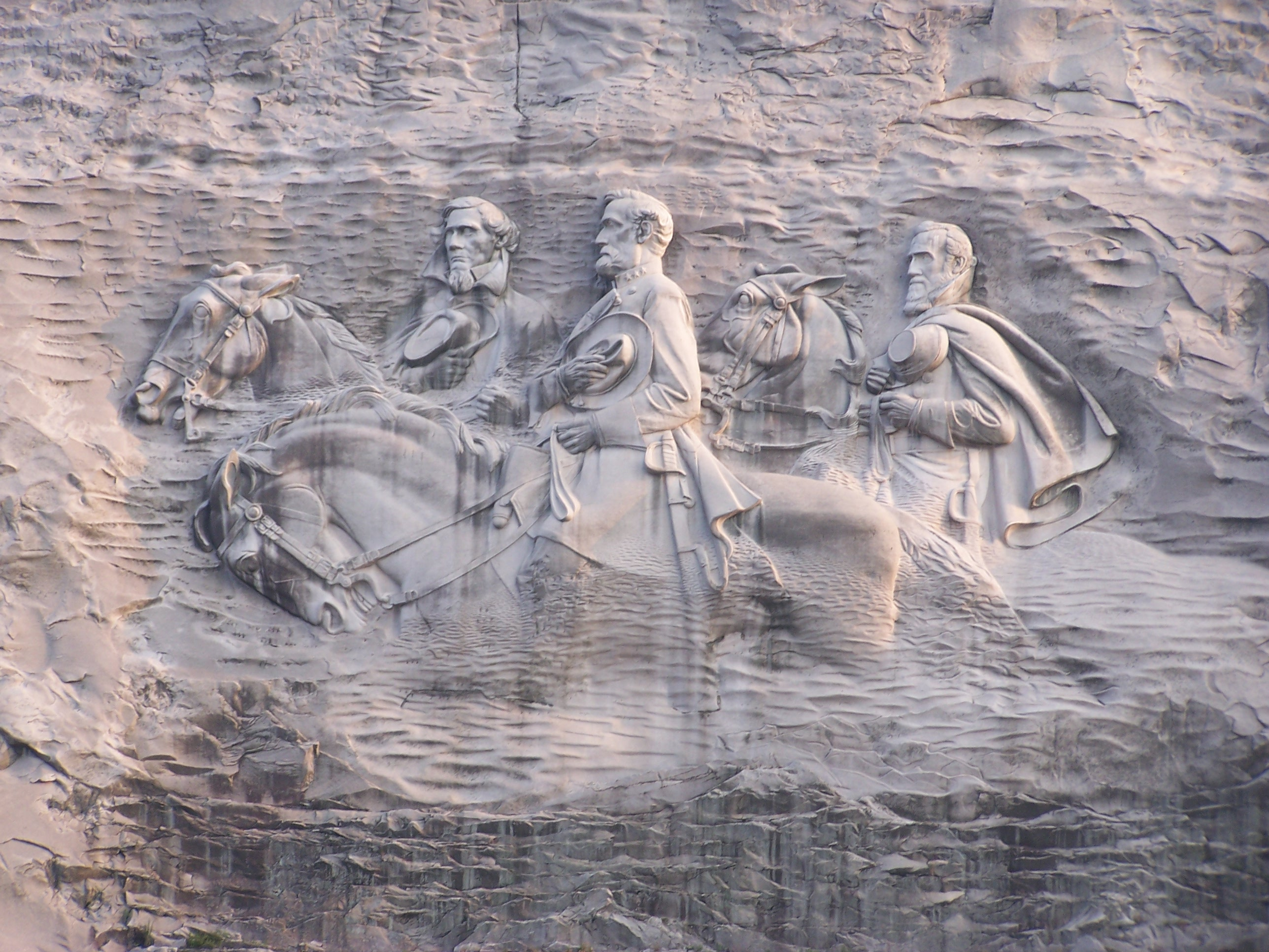 Stone Mountain Carving, Stone Mountain Park, Georgia, USA